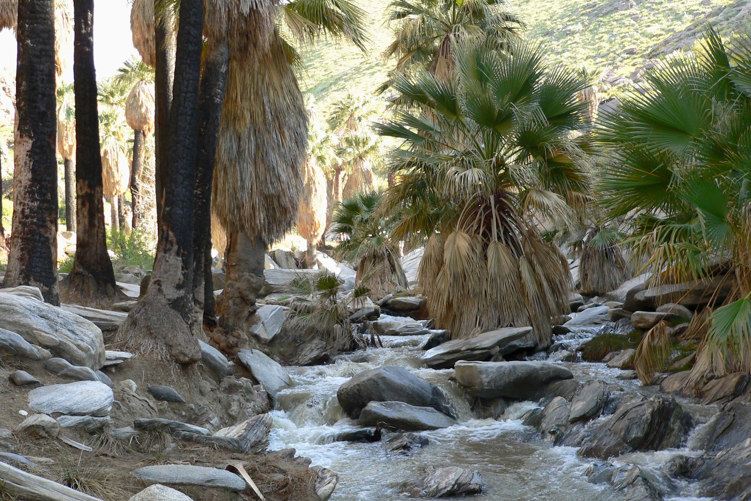 Photo of water in Palm Canyon, south of Palm Springs, California